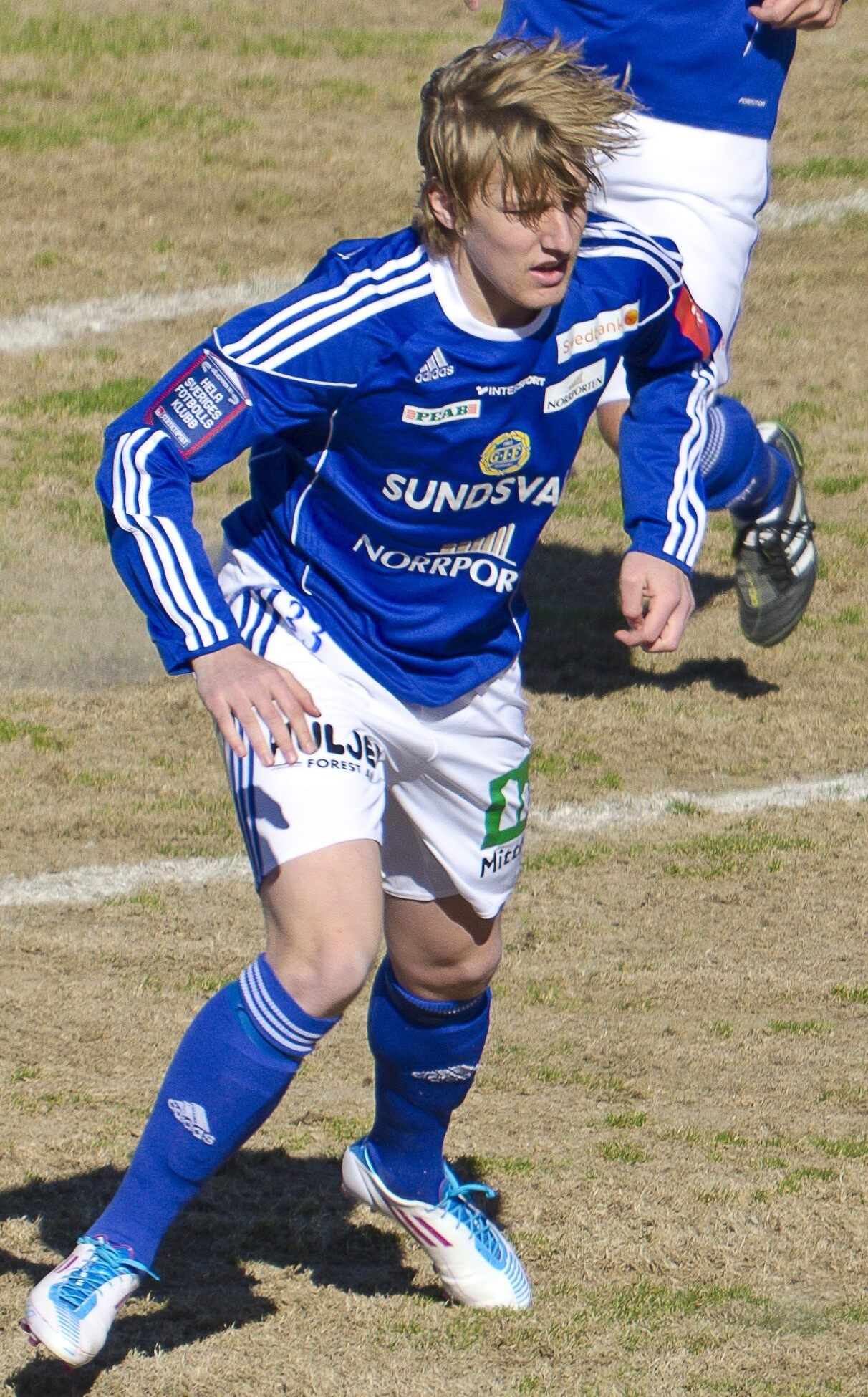 Cropped version of File:Emil Krafth premiärSE 6858.jpg